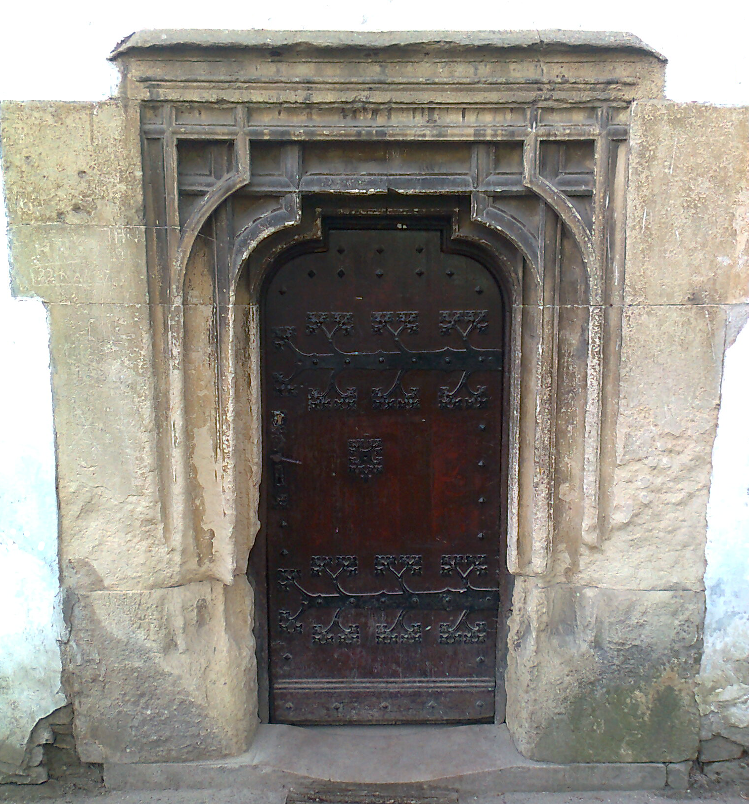 Entrance to the Franciscan Monastery in Cluj(Romania)